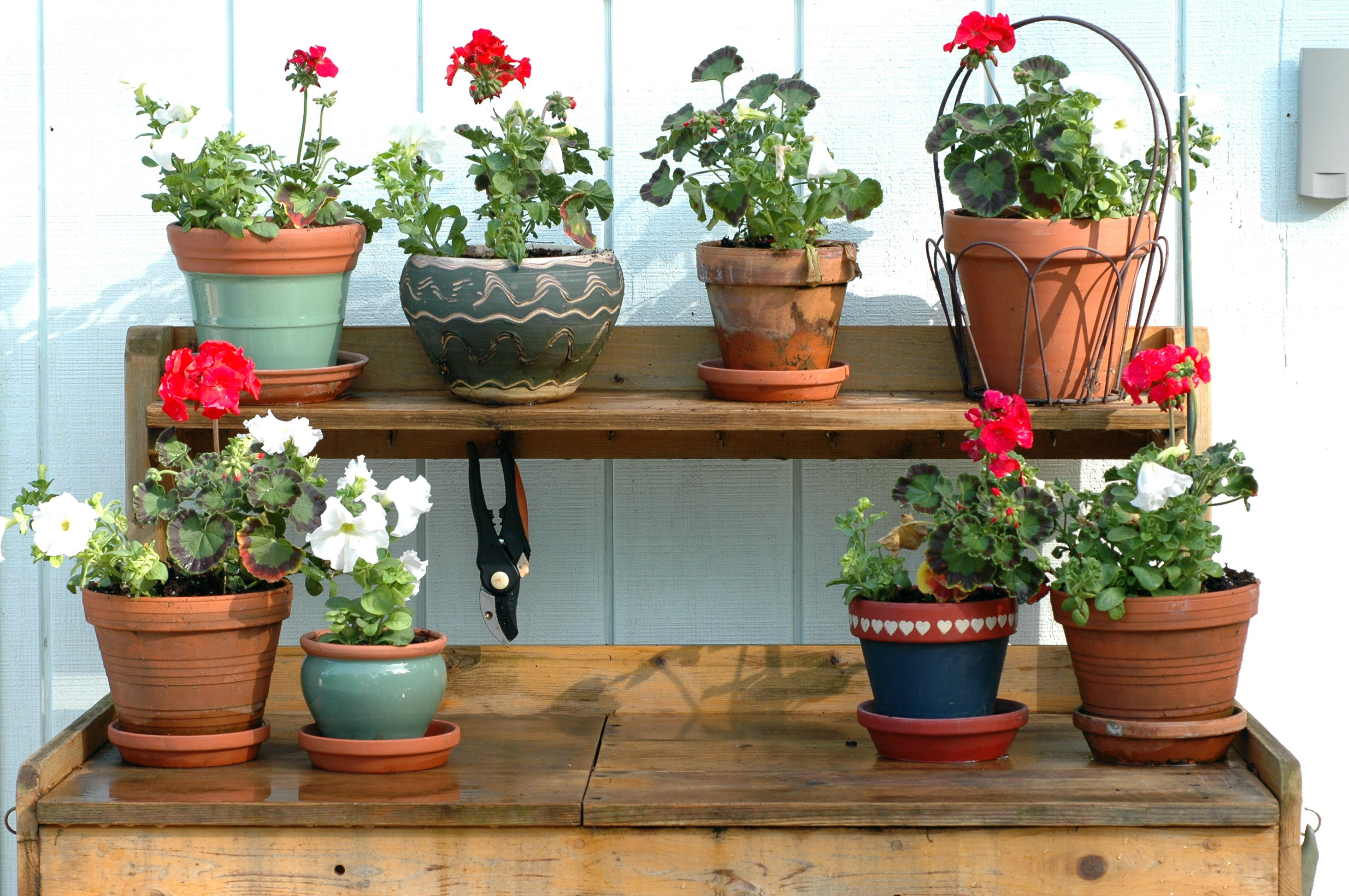 The flowers on my potting bench.